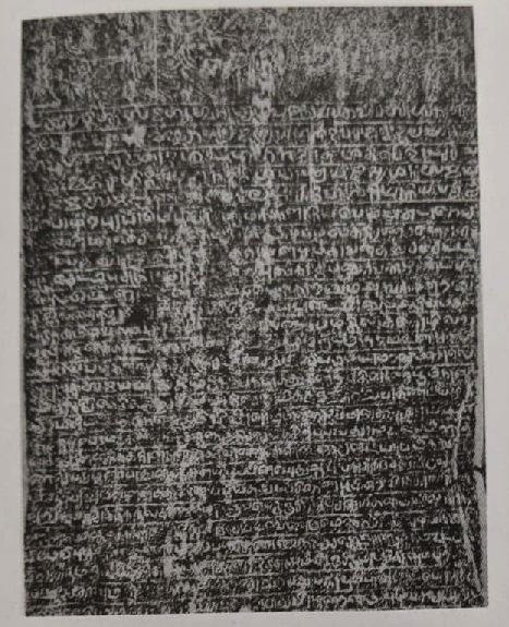 Viharehinna merchant inscription, 12th century AD